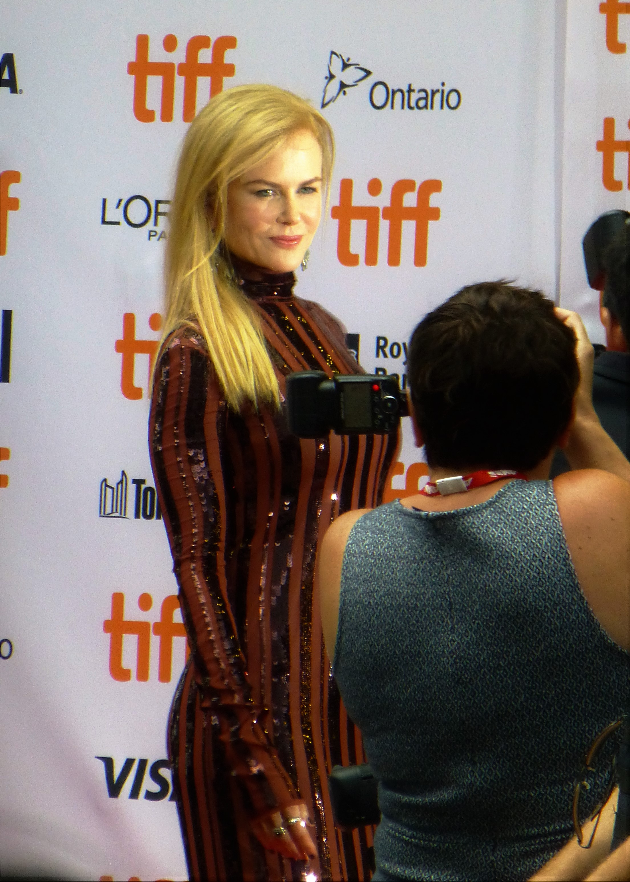 Nicole Kidman at the premiere of Lion, 2016 Toronto Film Festival